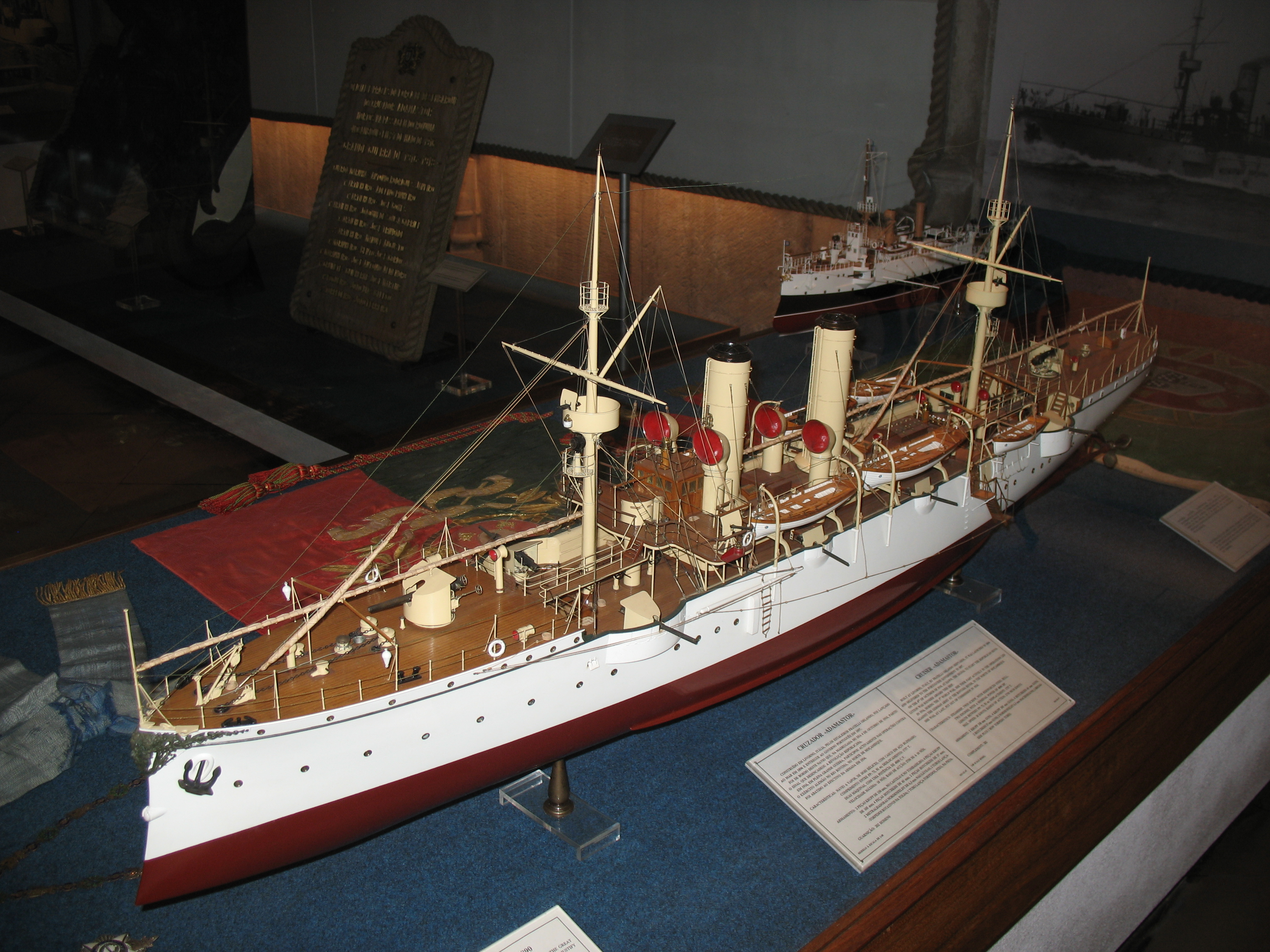 Photograph by Nct